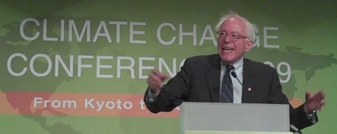 “So people tell me with all of the technology that we have right now that we are not capable of transforming our economy, of transforming our energy system and creating the jobs that will stimulate this economy, I would strongly disagree,” said Sen. Sanders.